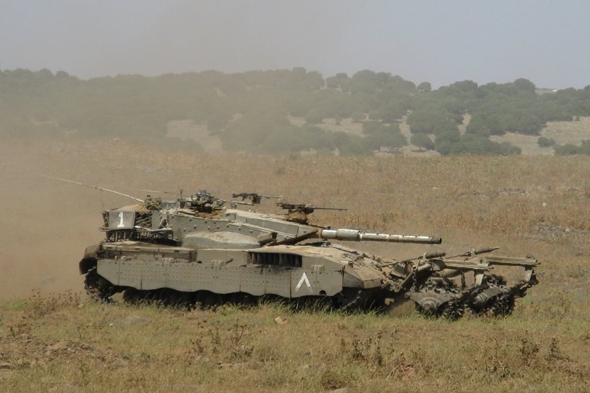 IDF Merkava Mk2 tank with Magov Nochri